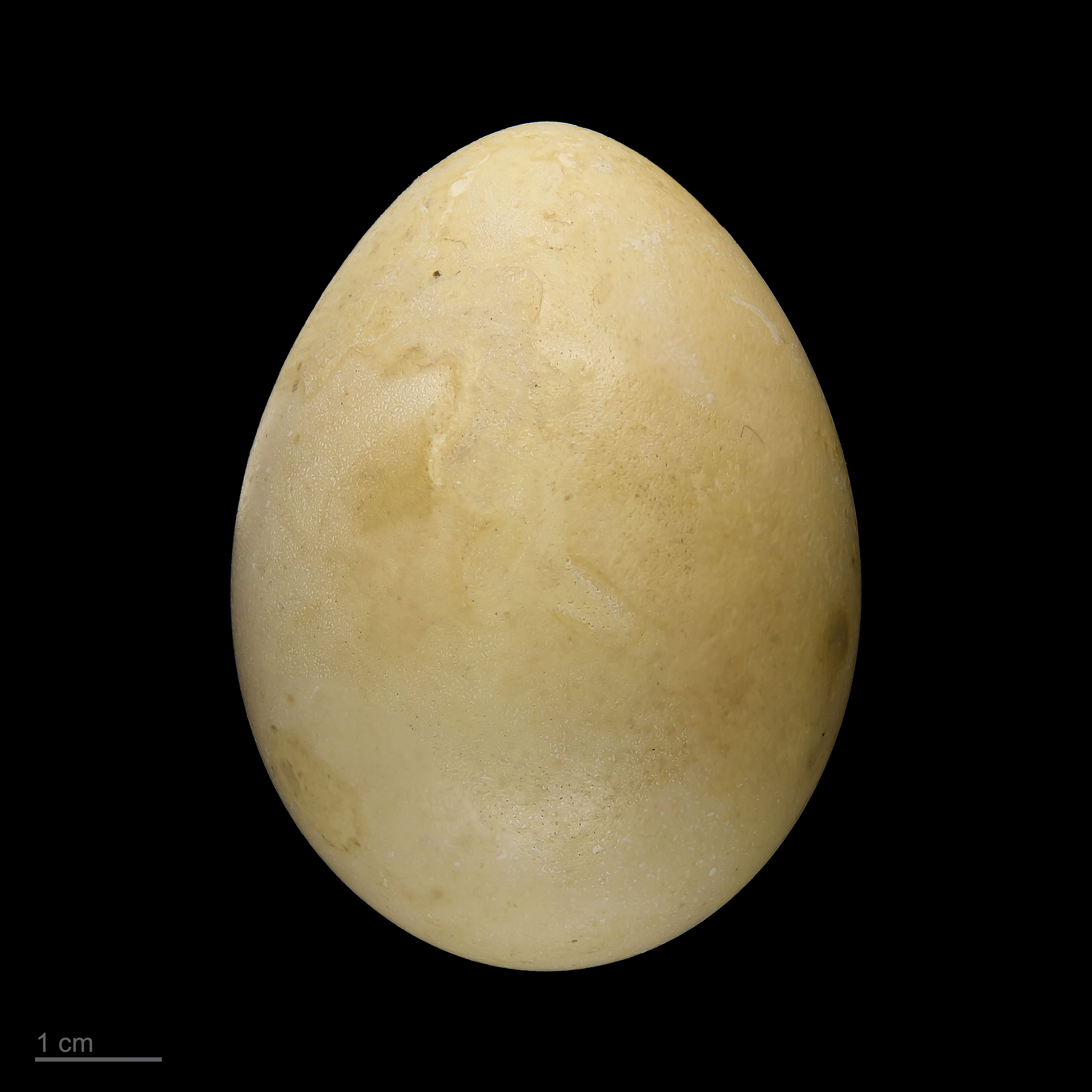 Egg of Swinhoe's pheasant Collection of Jacques Perrin de Brichambaut.